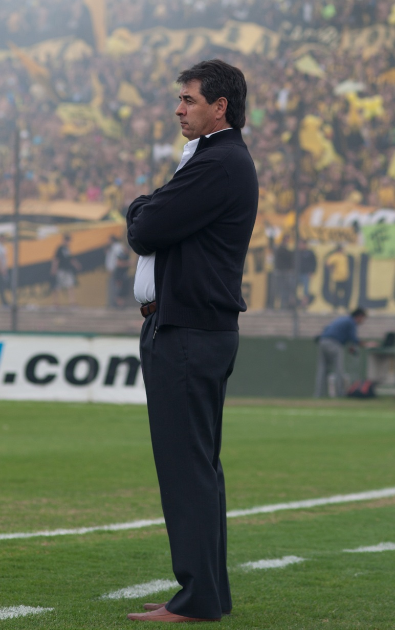 Uruguayan football coach and former player Jorge da Silva during a uruguayan derby while coaching Peñarol.